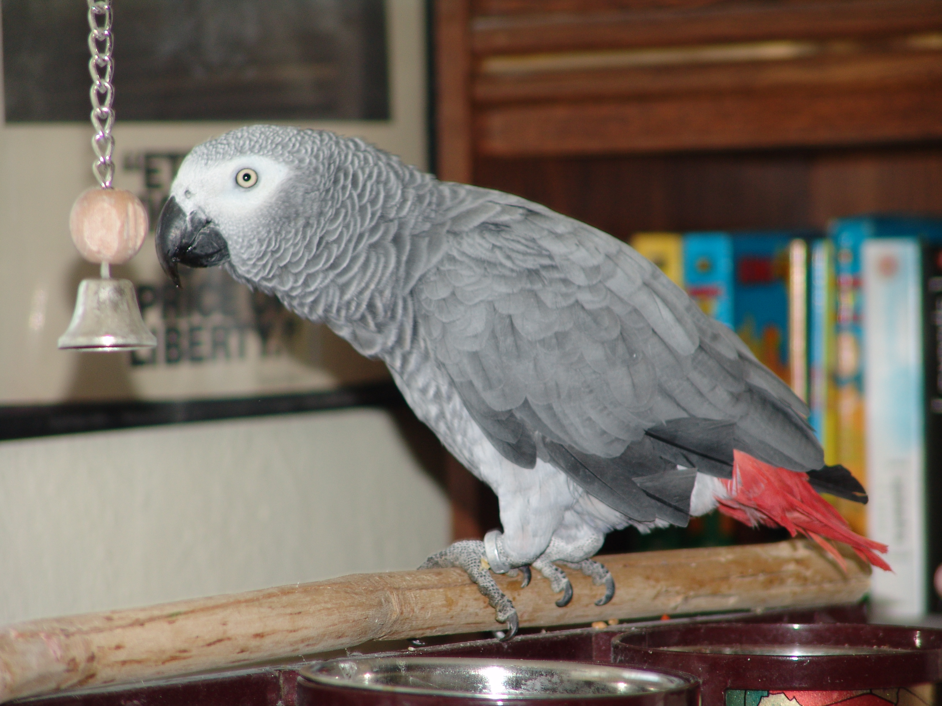 A wing clipped pet African Grey Parrot on a perch.